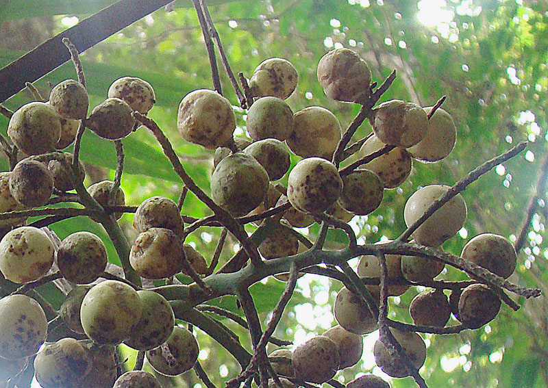 Fruit of one of the fan palms known as Palma de Escoba, Indio Maiz Reserve, southeastern Nicaragua. In context at